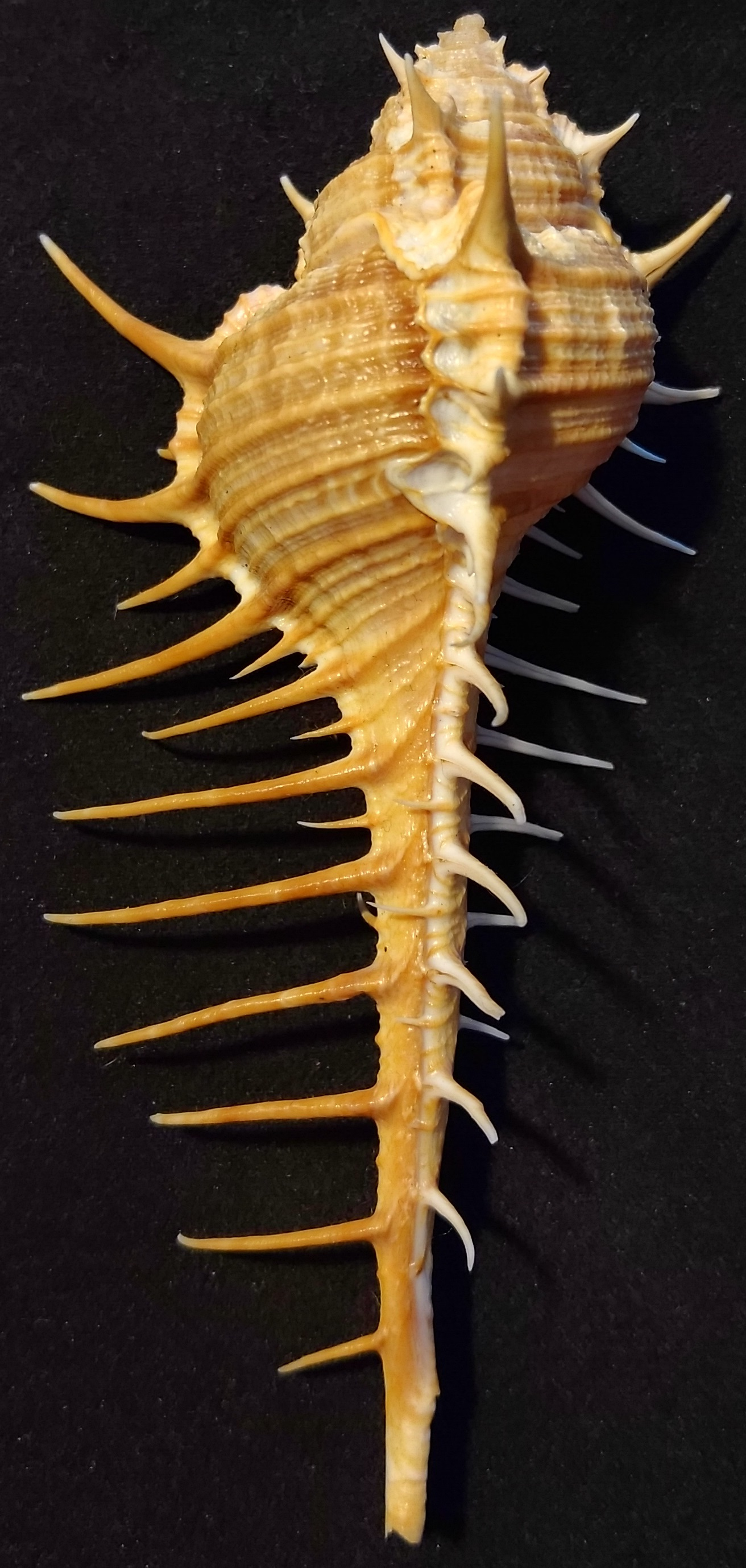 Murex Djarianensis Poppei Back.